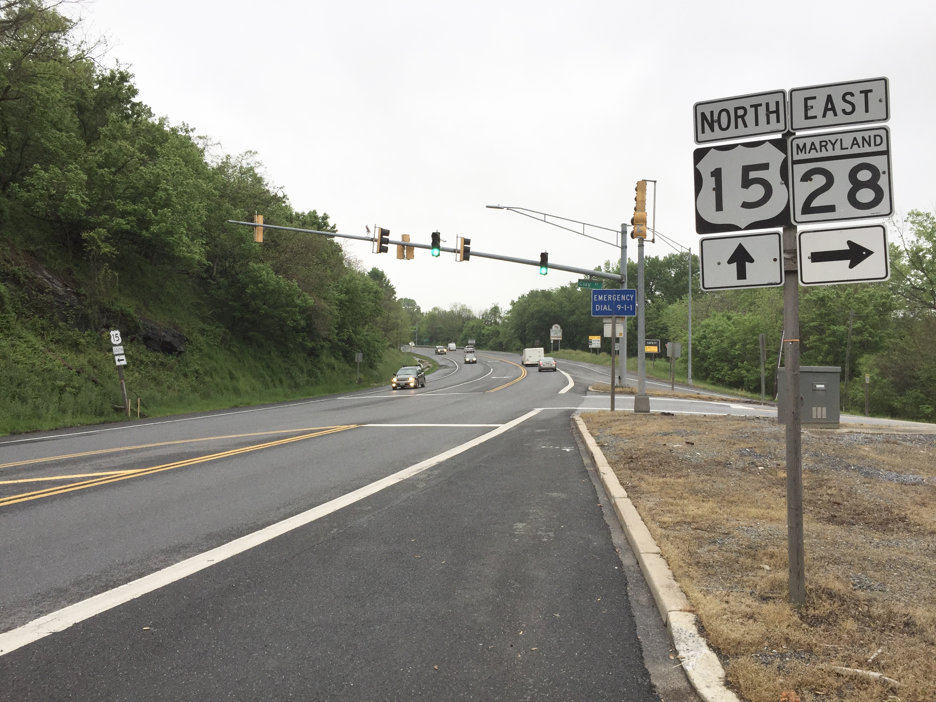 View north along U.S. Route 15 (Catoctin Mountain Highway) at Maryland State Route 28 (Clay Street) in Point of Rocks, Frederick County, Maryland